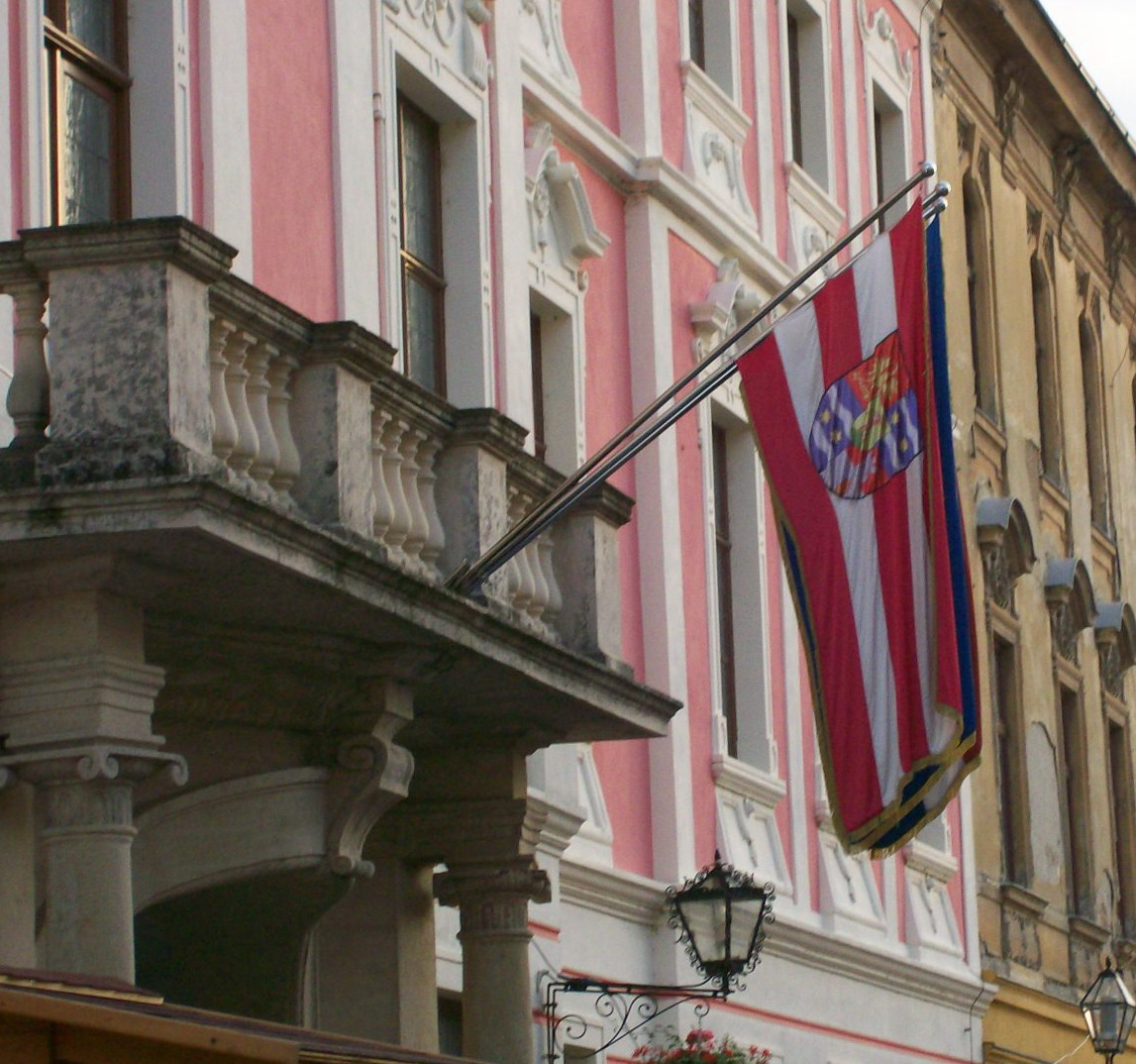 Flag of Varaždin County, Croatia